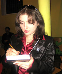 The presentation of the book "Collision". Stuttgart, Germany